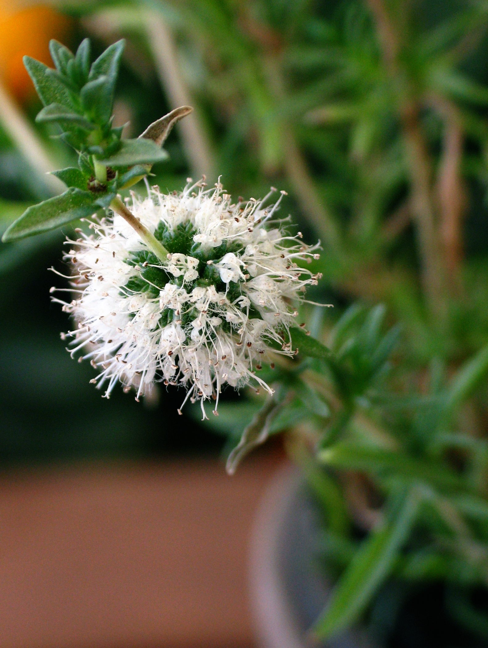 Mentha cervina (flower)